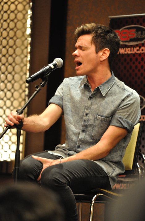 They did a secret radio show in the Cosmopolitan!